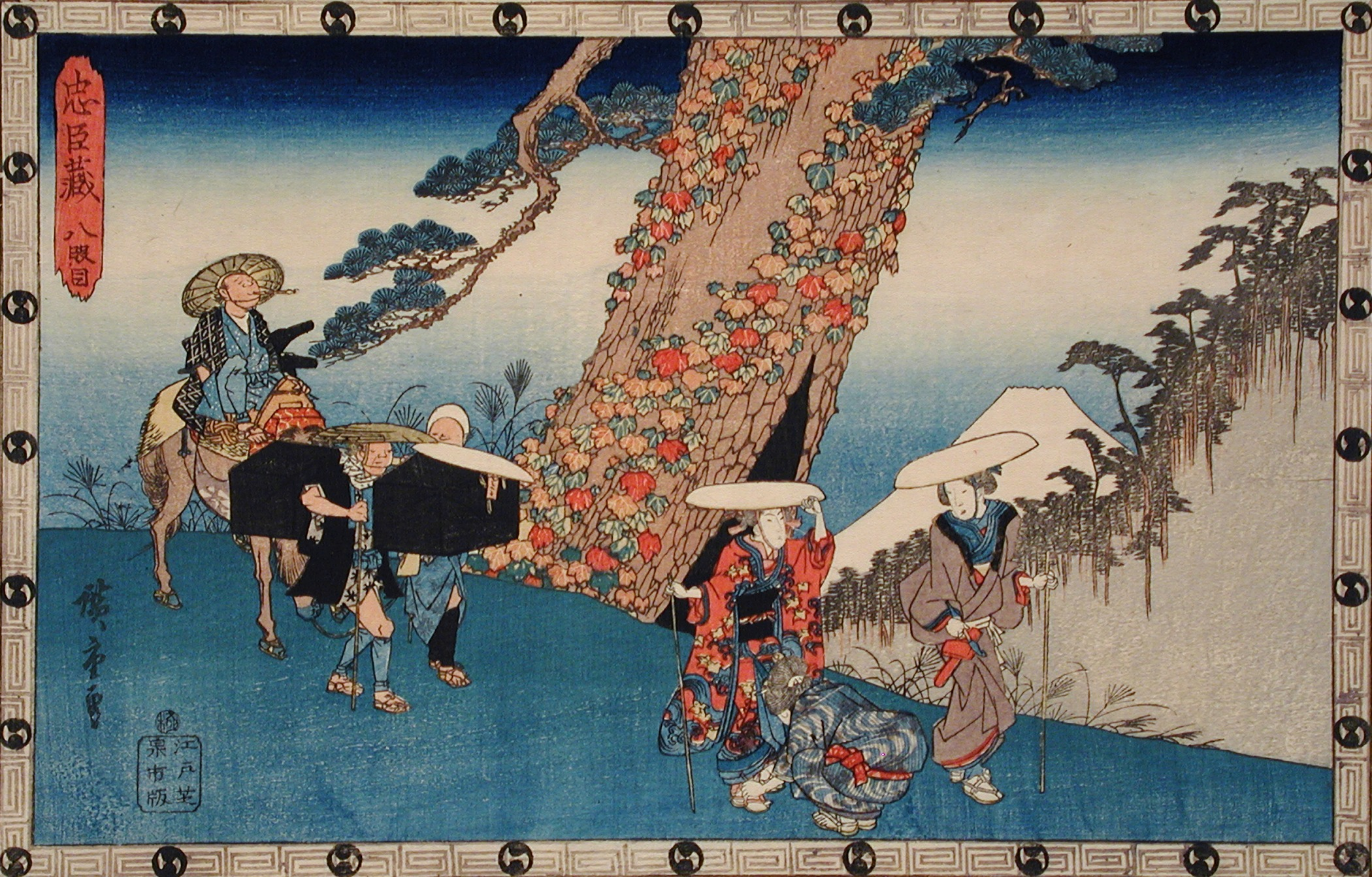 Japan, circa 1835-1839 Series: The Storehouse of Loyal Retainers Prints; woodcuts Color woodblock print Image: 9 1/8 x 14 1/16 in. (23.2 x 35.9 cm); Sheet: 10 1/8 x 14 5/8 in. (25.6 x 37.0 cm) Gift of Dr. Harvey Eagleson (M.66.35.53) Japanese Art